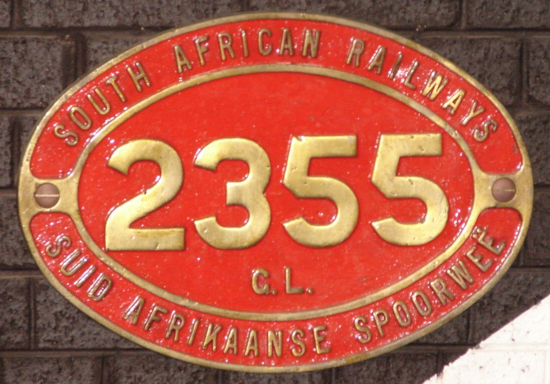 SAR Class GL no. 2355 (4-8-2+2-8-4) number plateLocation: George, Western Cape